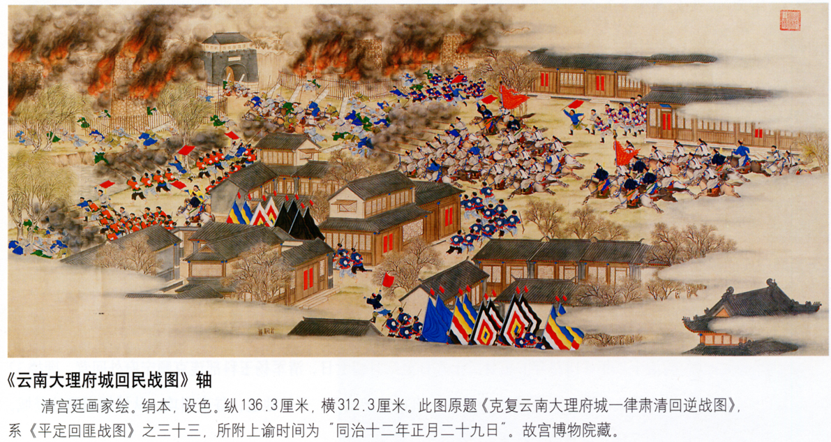 A battle of the Panthay Rebellion (1856–1873) from the set "Victory over the Muslims", set of twelve paintings in ink and color on silk,136.0x310.0 cm. Palace Museum, Beijing.